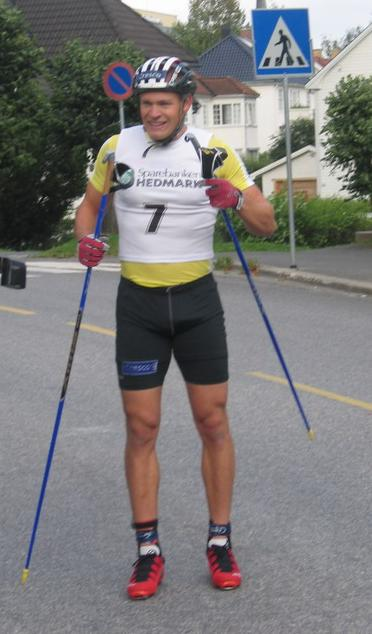 The Norwegian cross-country skier Børre Næss under Kirkebakken Grand Prix 2007 in Hamar, Norway.